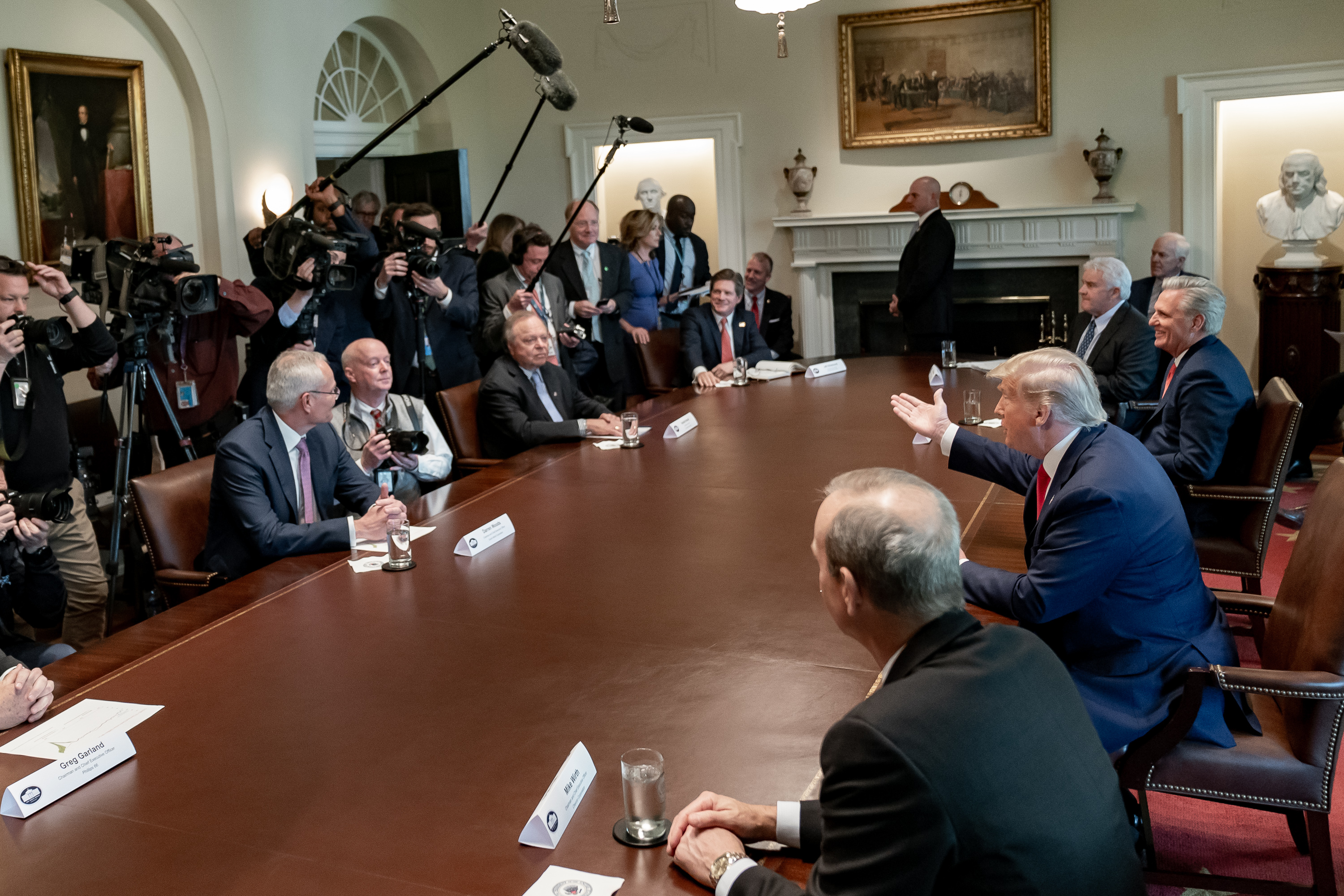 President Donald J. Trump participates in a roundtable meeting with energy sector executives in the Cabinet Room of the White House Friday, April 3, 2020, to discuss declining oil prices in the time of the global coronavirus pandemic and the dispute between Russia and Saudi Arabia to reduce output. (Official White House Photo by Shealah Craighead)